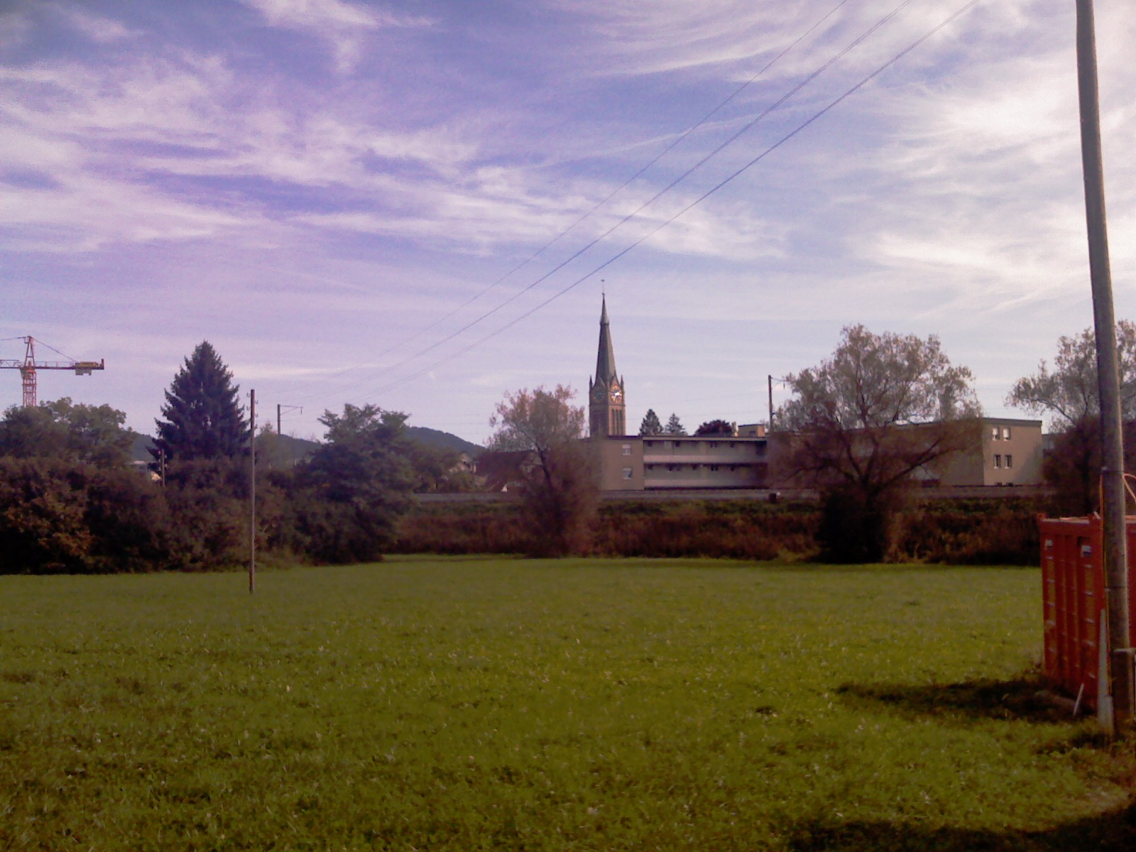 Protestant church of WetzikonEsperanto: Protestanta preĝejo de Wetzikon